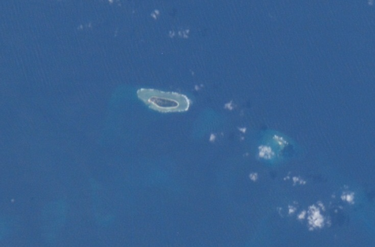 Image of Taiping Island (also known as Itu Aba Island, left) and Zhongzhou Reef (right) taken aboard the International Space Station.